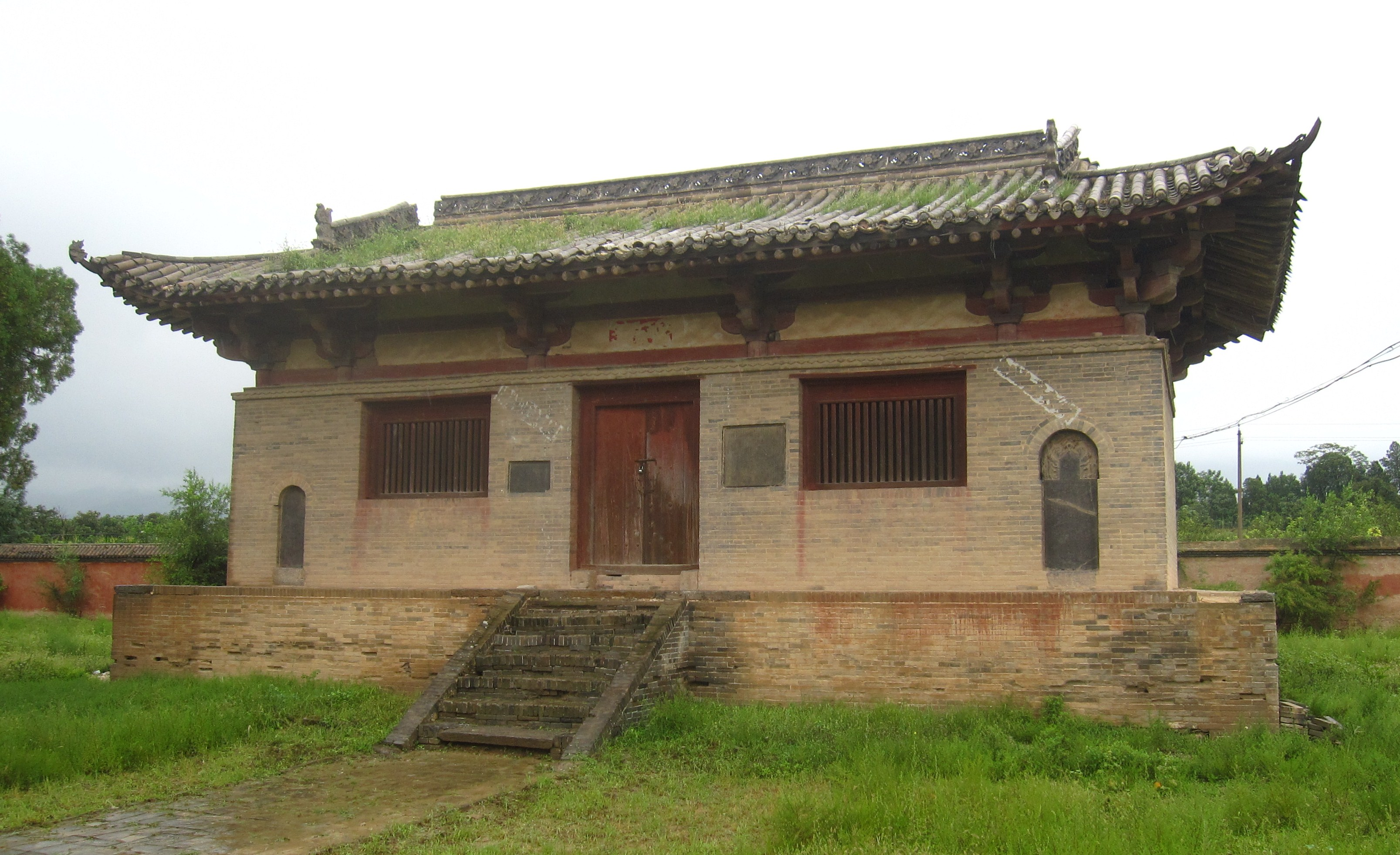 The Five Dragons Temple, located in Ruicheng, Shanxi province of China.